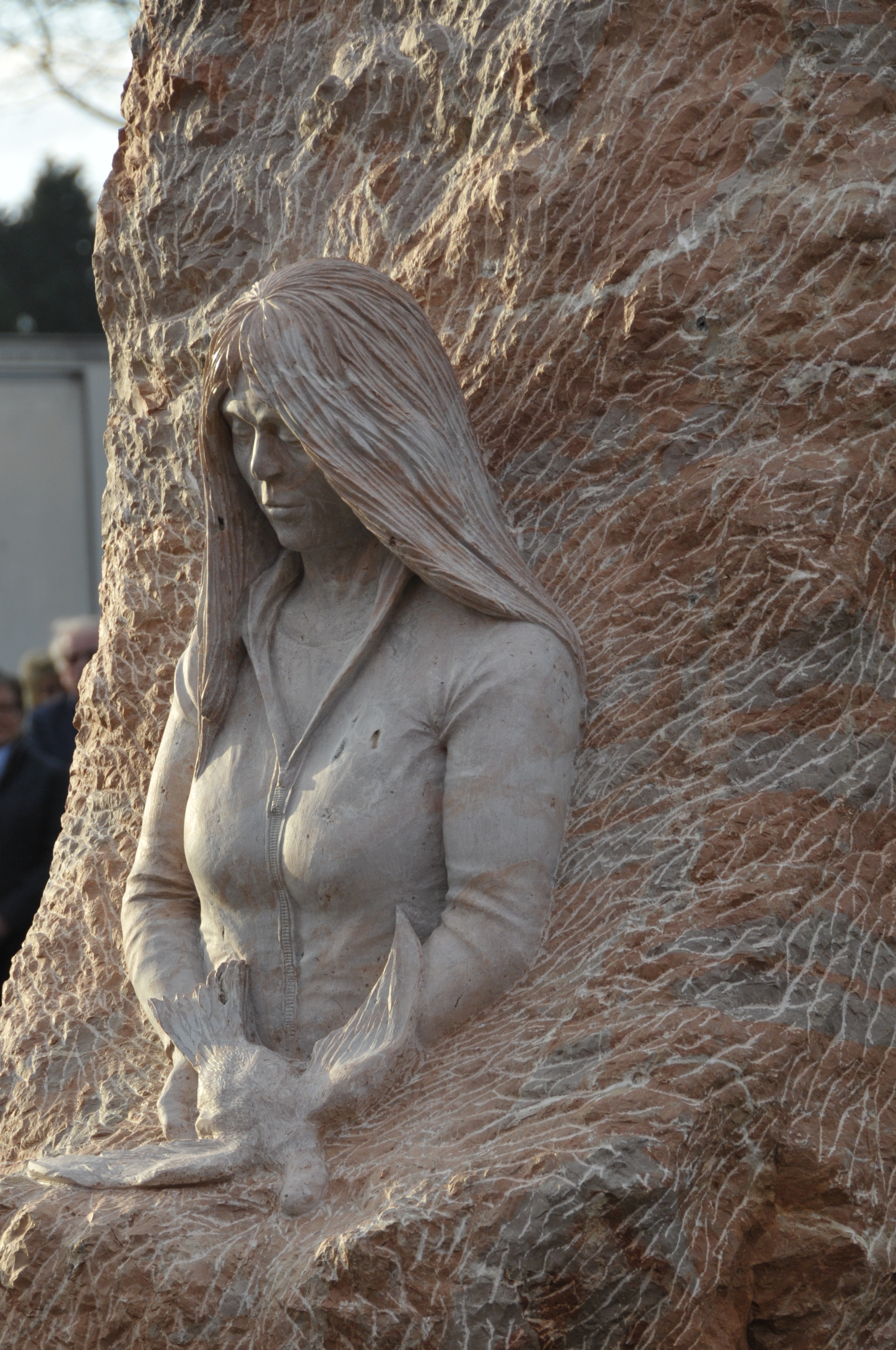 Detail of the war monument in Vriezenveen (The Netherlands), made by Sculptor Jan-Carel Koster.